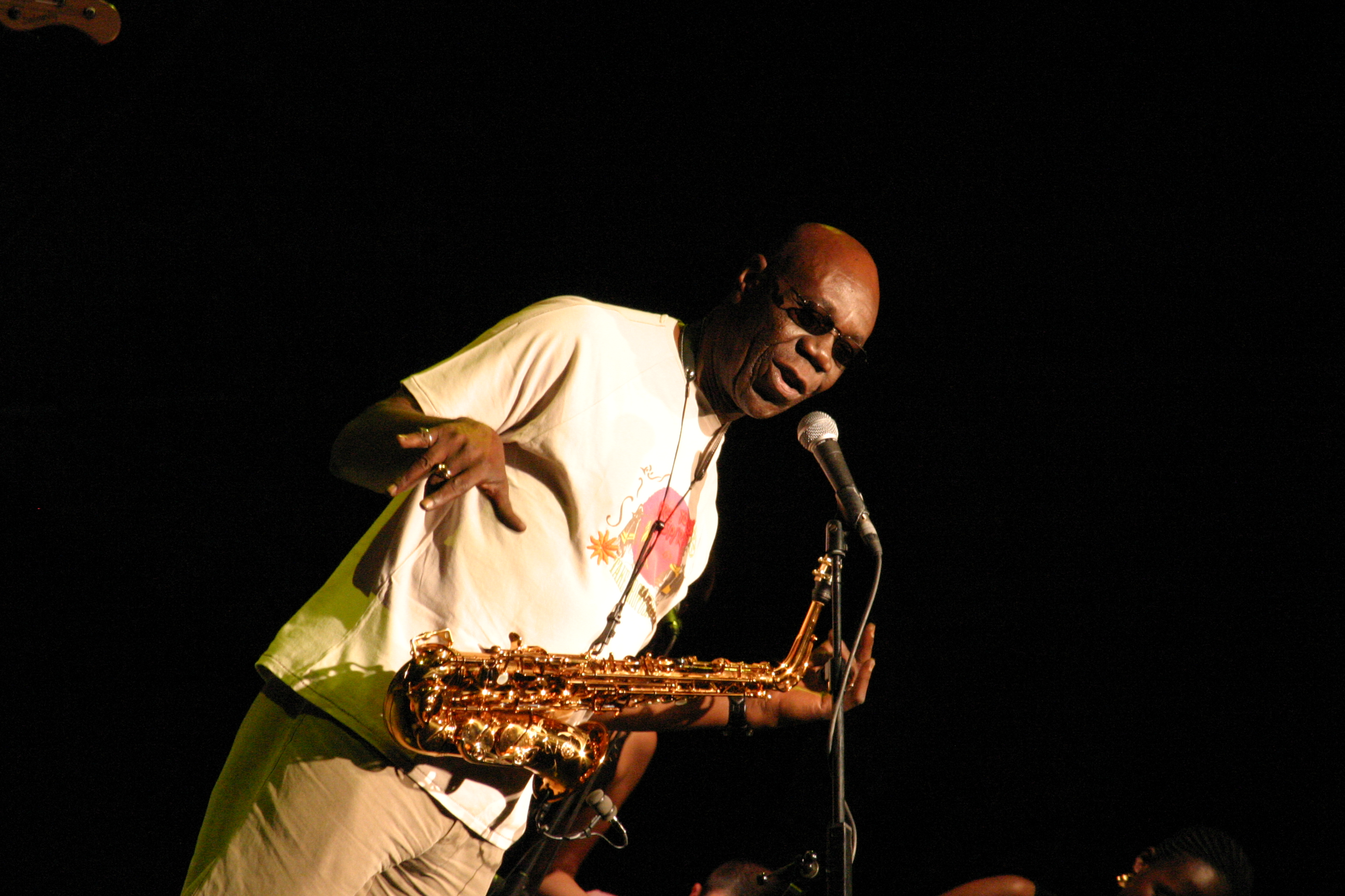 Manu Dibango